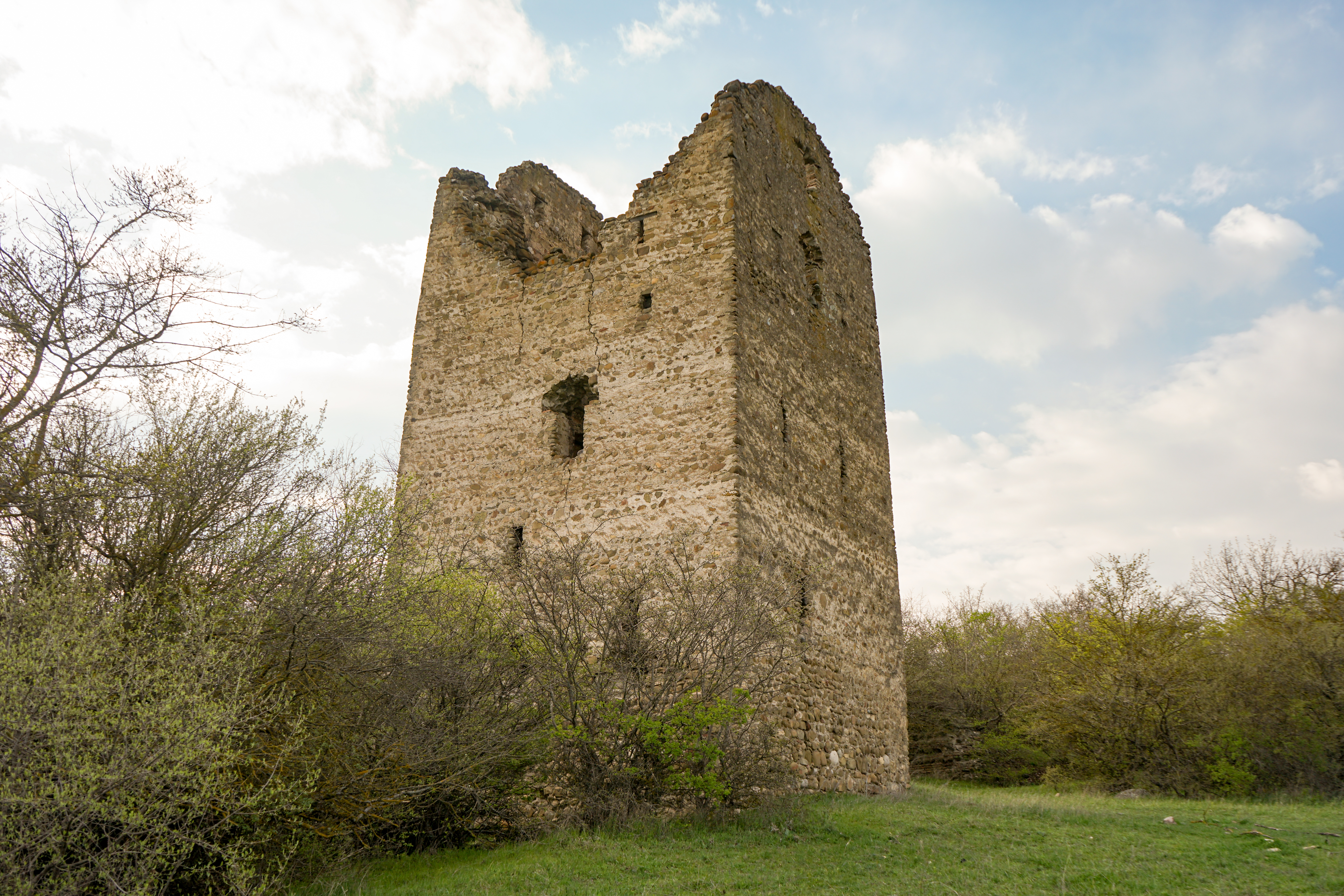 A tower in Zemo Kodistskaro Palace (view from the east), Dusheti Municipality, Georgia